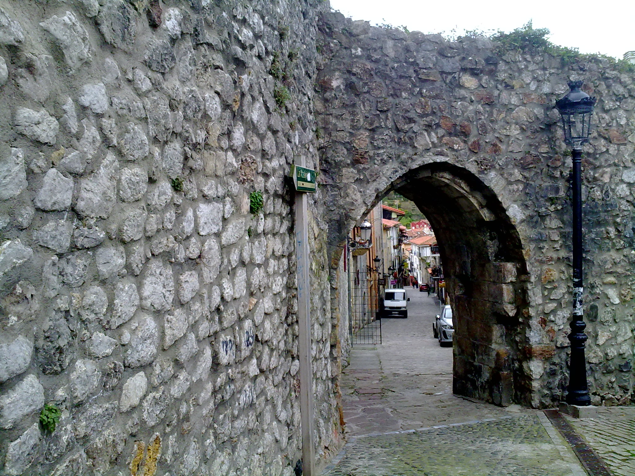 La antigua muralla de Laredo